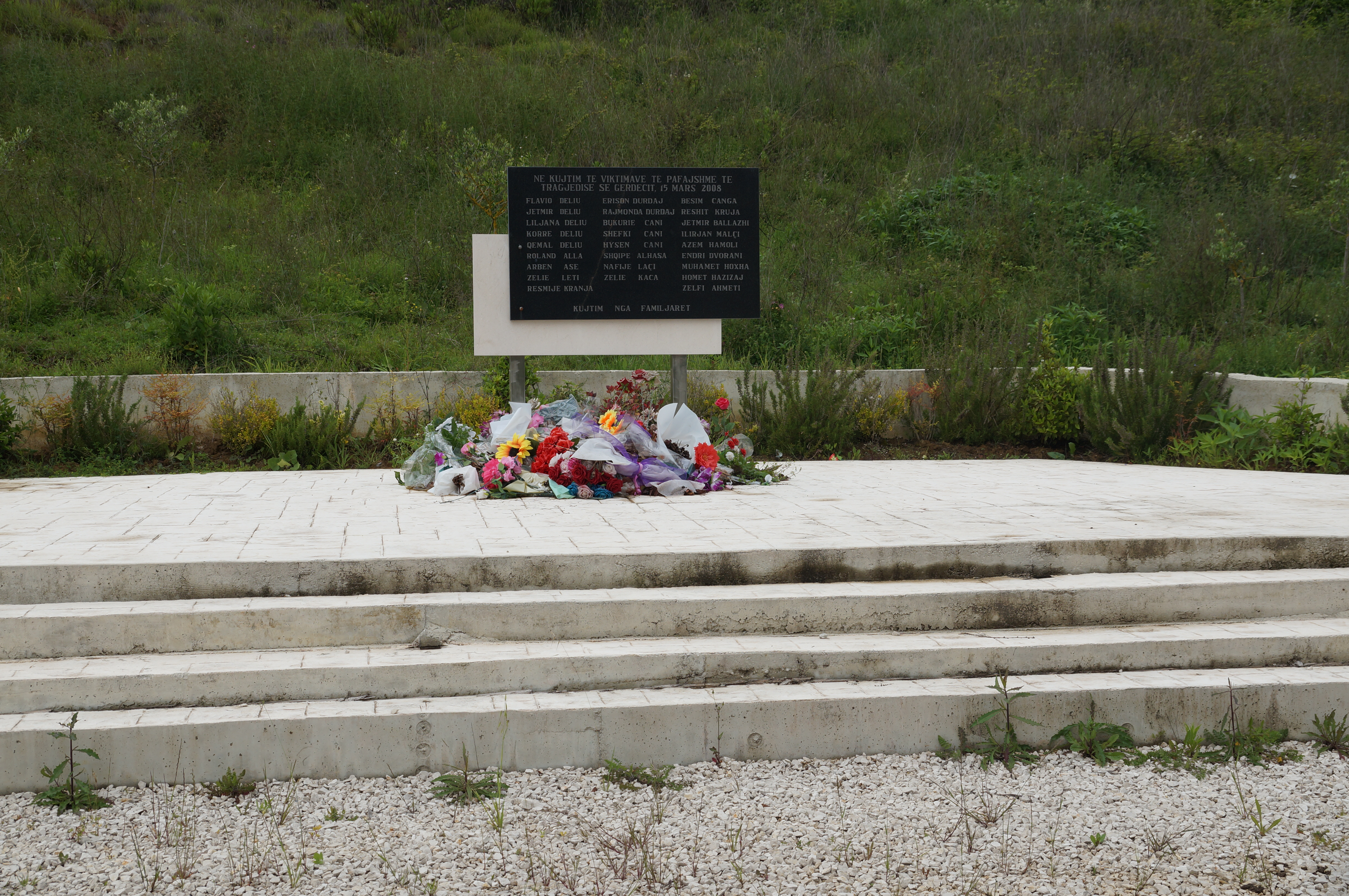 Memorial for the tragedy of Gërdec, Gërdec village, Vora, Central Albania